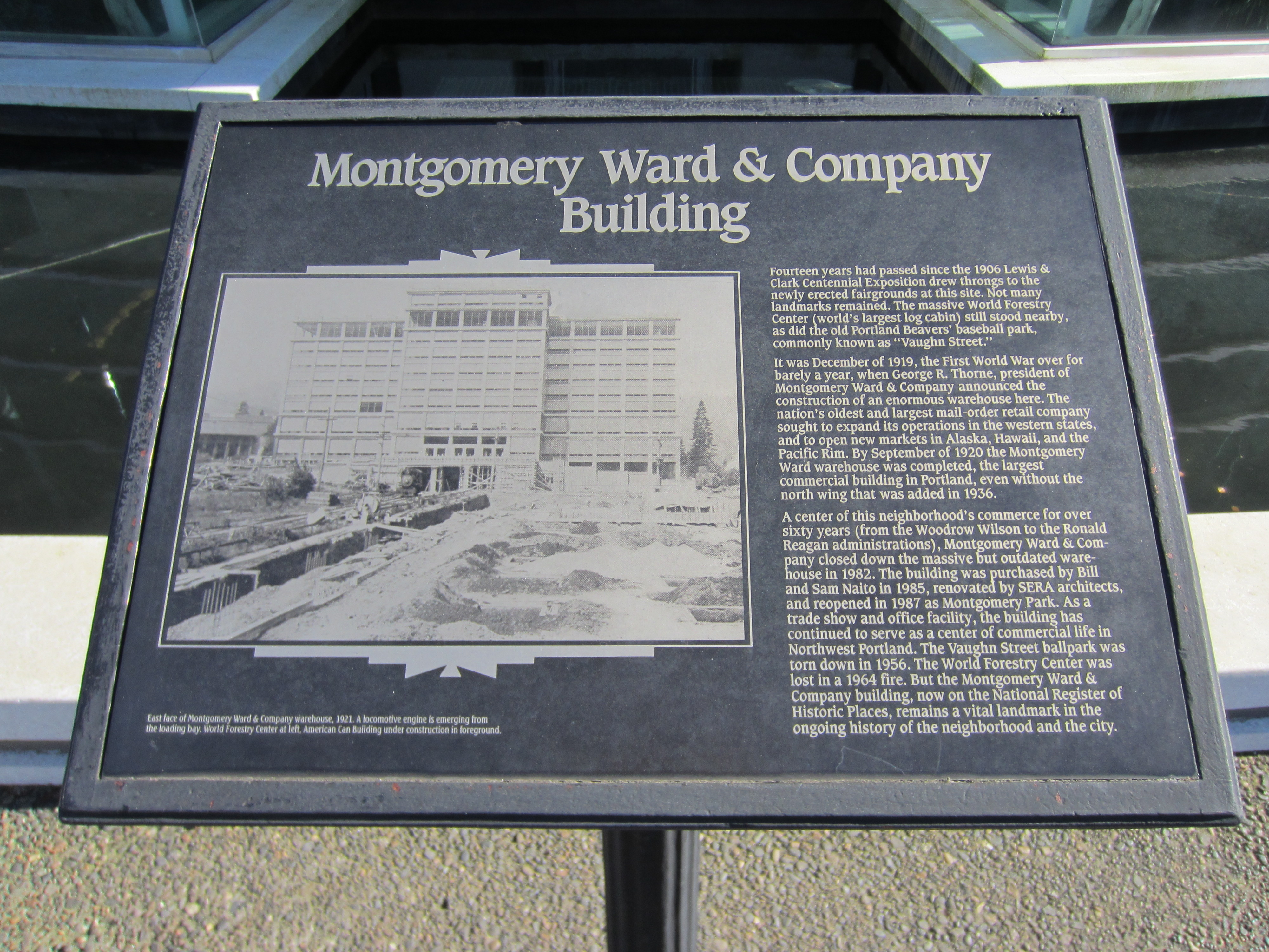 Montgomery Park in northwest Portland, Oregon in 2012